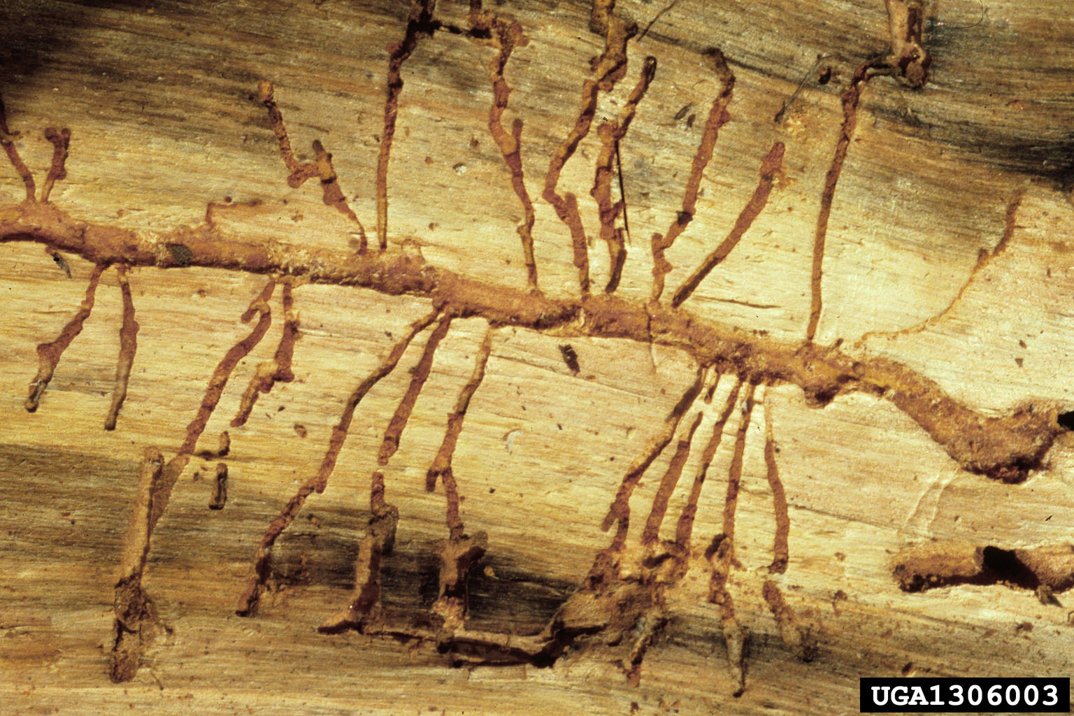 Egg gallery of mountain pine beetle (Dendroctonus ponderosae)